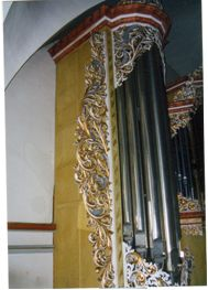 Wilhelm Kunst: Orgelprospekt St. Andreas Cloppenburg